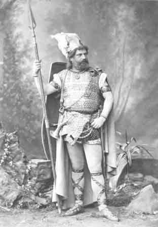 Photo of german opera singer Georg Unger